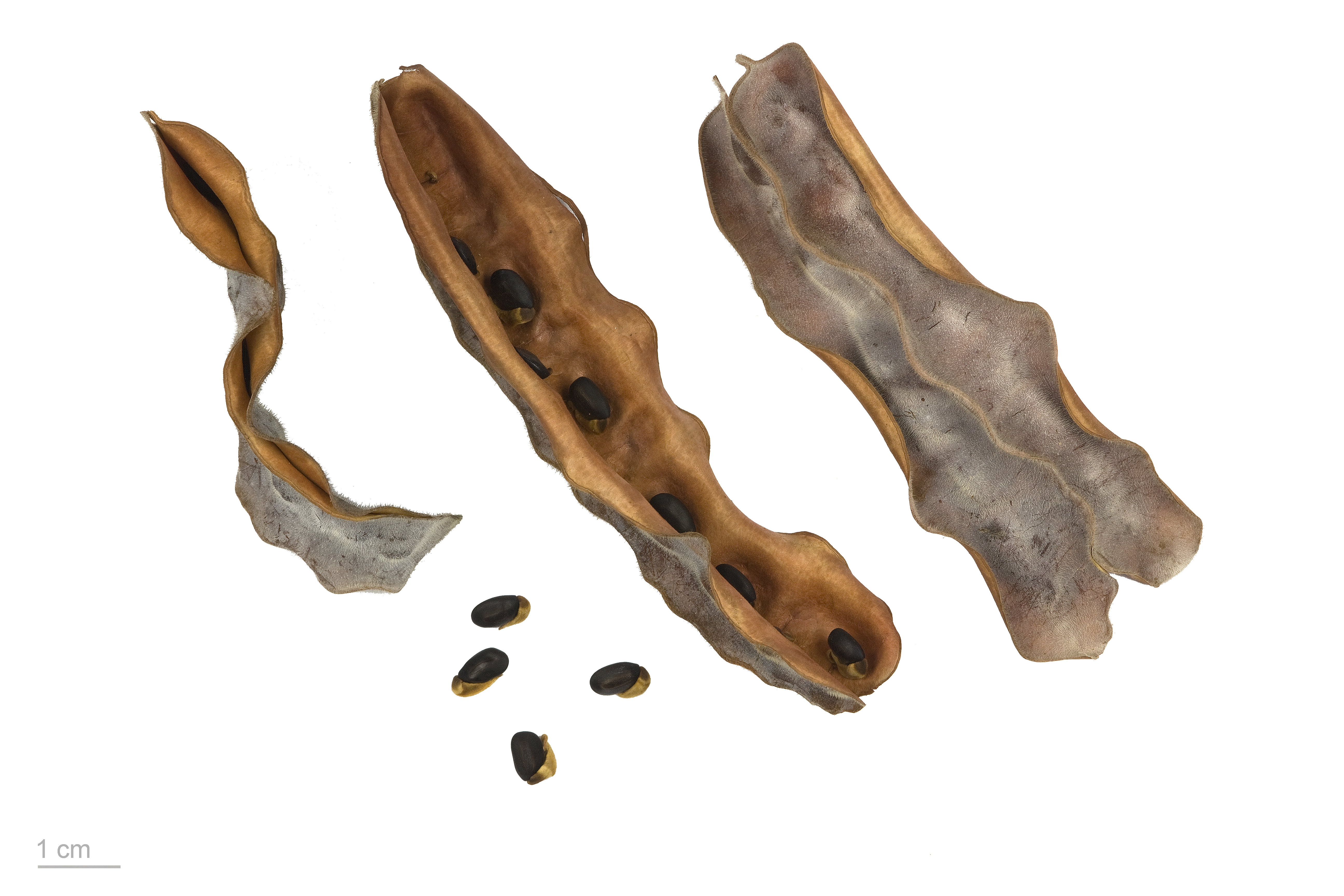 Acacia podalyriifolia , fruits and seeds